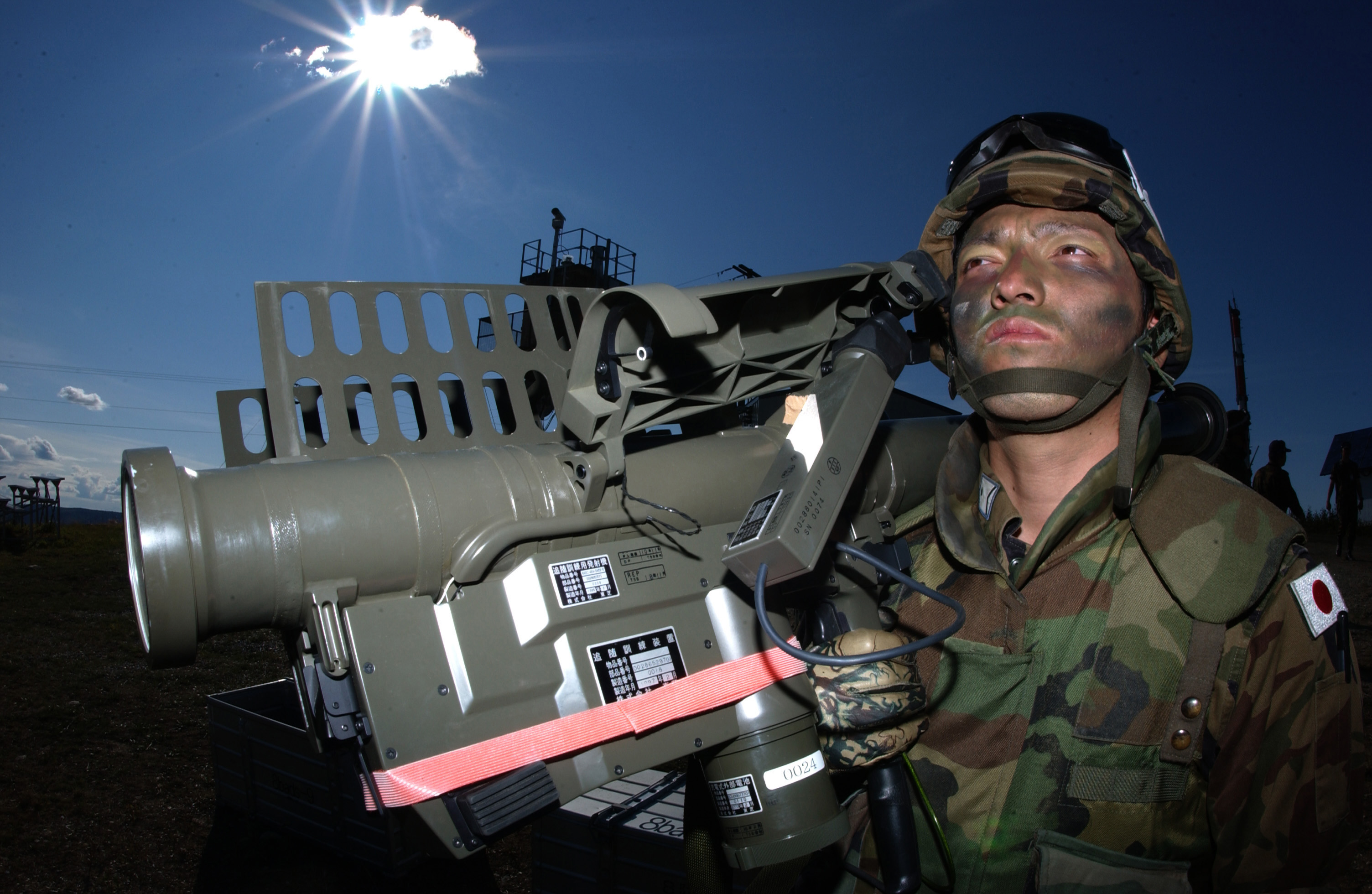 EIELSON AIR FORCE BASE, Alaska -- Staff Sgt. Kenichira Watanabe, missile operator, Japanese Air Self Defense Force, uses a Type 91 Sam-2 Surface to Air missile launcher to take out enemy aircraft on the Pacific Alaskan Range Complex on July 24 during Red Flag-Alaska 07-3. With 67,000 square miles of rugged terrain, Japanese Forces are able to train tracking low flying aircrafts against a mountain back drop; this type of training is unavailable to them at their home station.